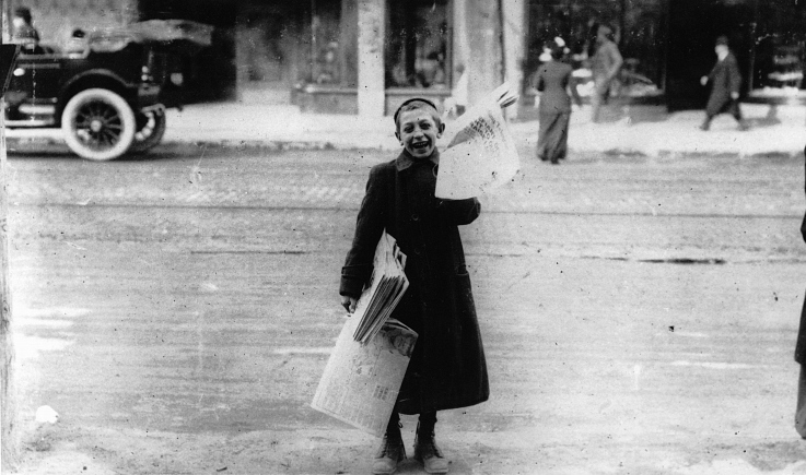 Newsboy selling papers (Toronto Evening Telegram), Toronto, Canada.